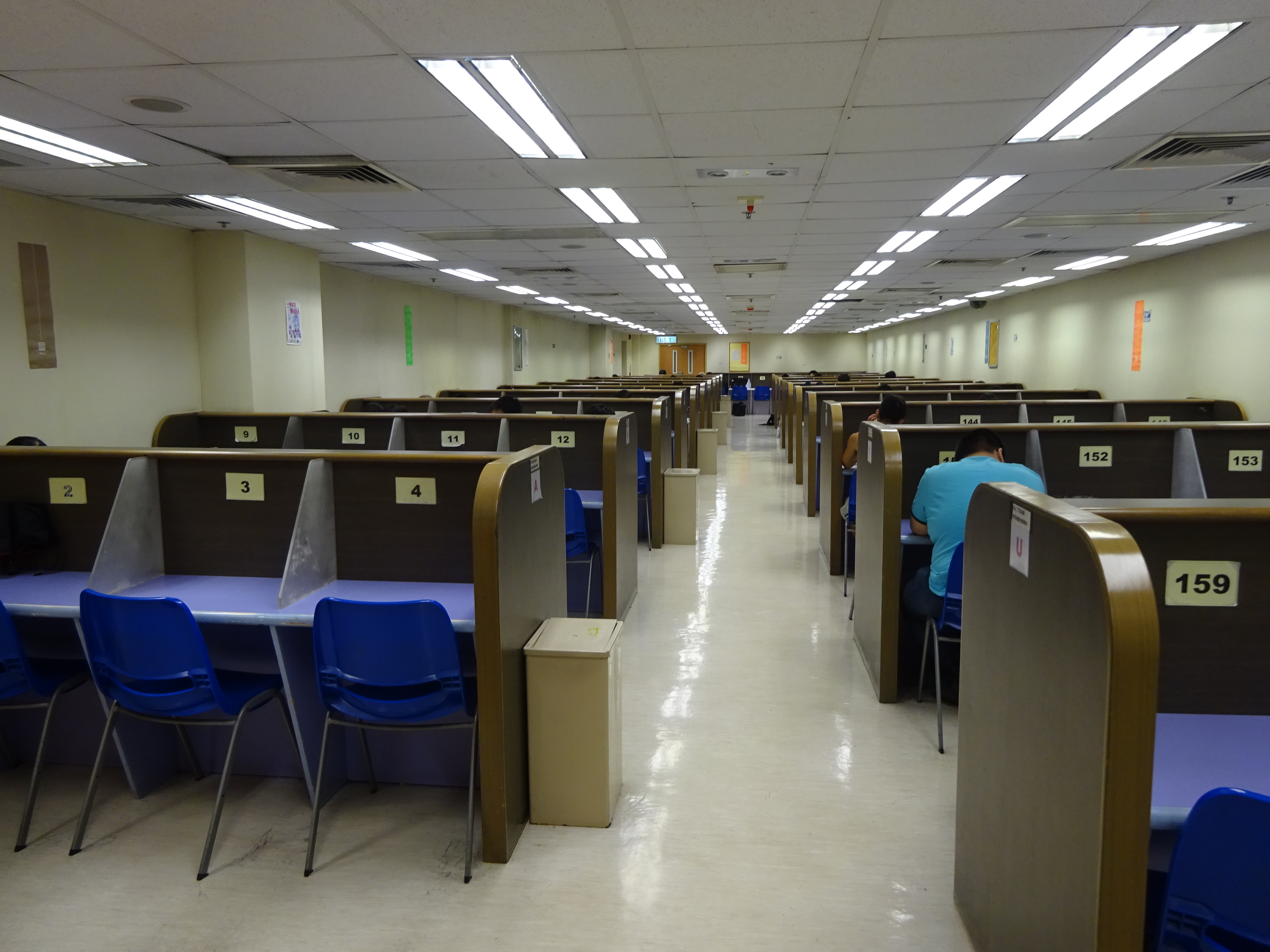 HK 元朗政府合署 Yuen Long Government Offices 元朗公共圖書館 自修室 Public Library Study Room in June 2016